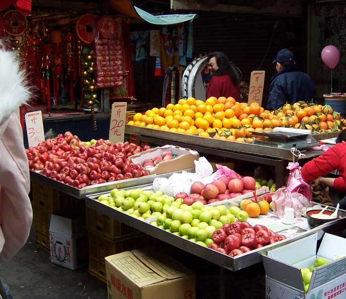 Sam-hô Market, Sanchung, Taiwan